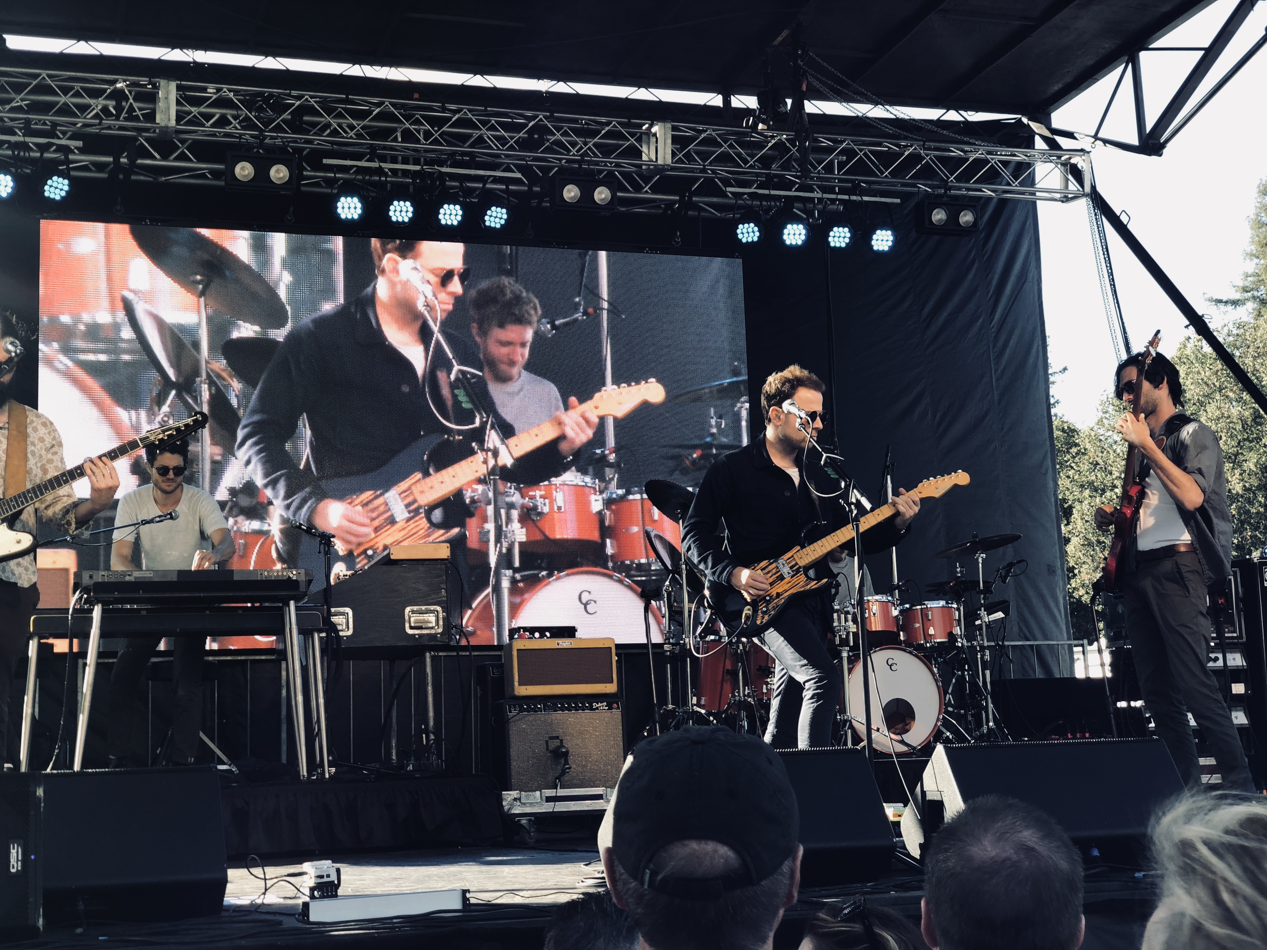 Dawes (Band) playing Farm-to-Fork in Sacramento, California on September 29th, 2018.